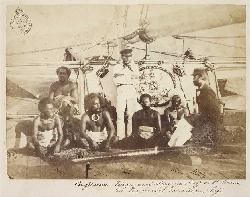 HMS Pelorus, in Macuata waters at Vanua Levu, 1861. Left to right: unknown, Ma`afu (seated at back); Siale`ataongo; consular interpreter Charles Wise; unknown; Ritova; Consul Pritchard aboard HMS Pelorus, in Macuata waters, 1861.